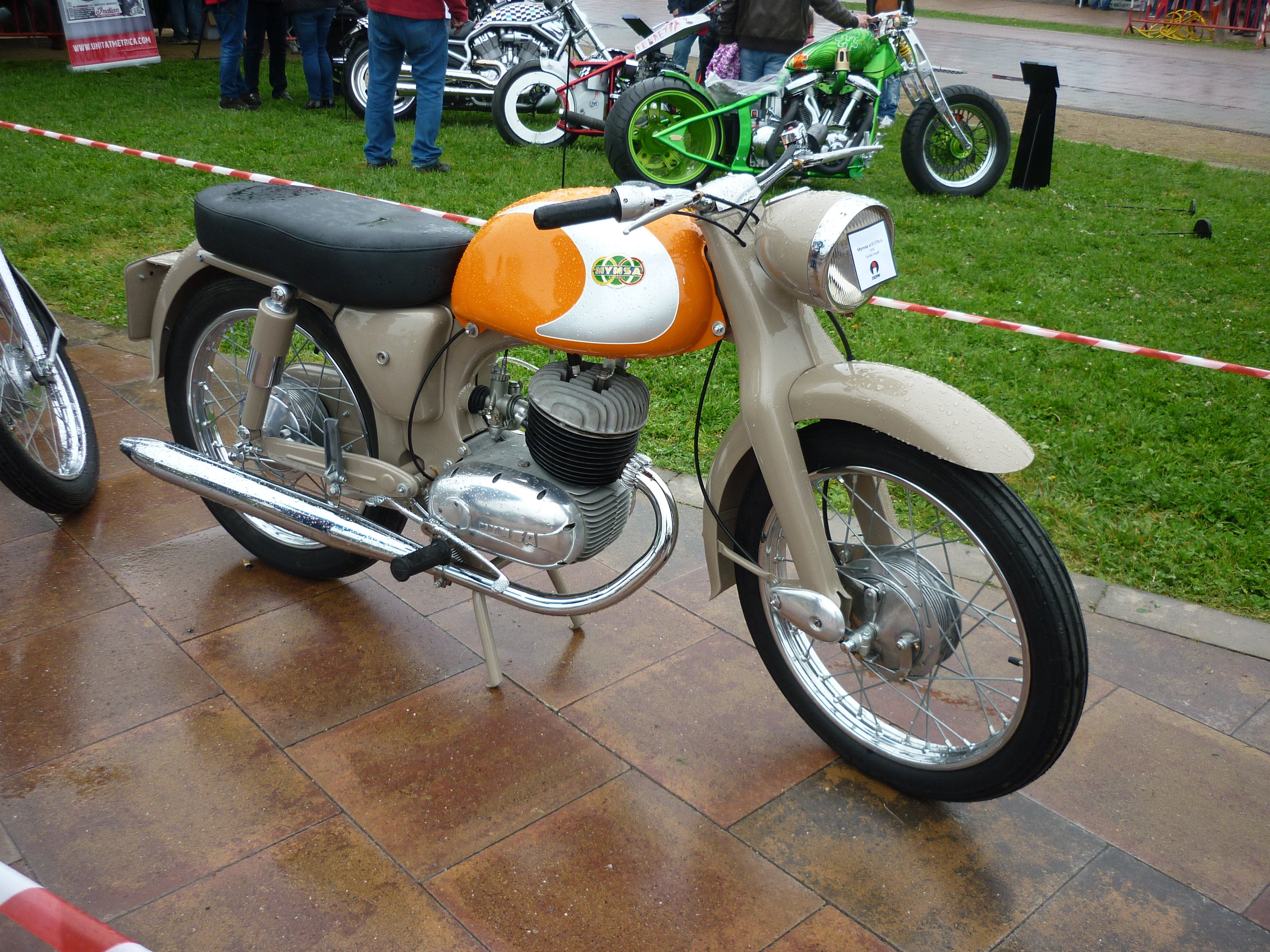 Mymsa X-13 175cc (1958), made in Barcelona (Catalonia).